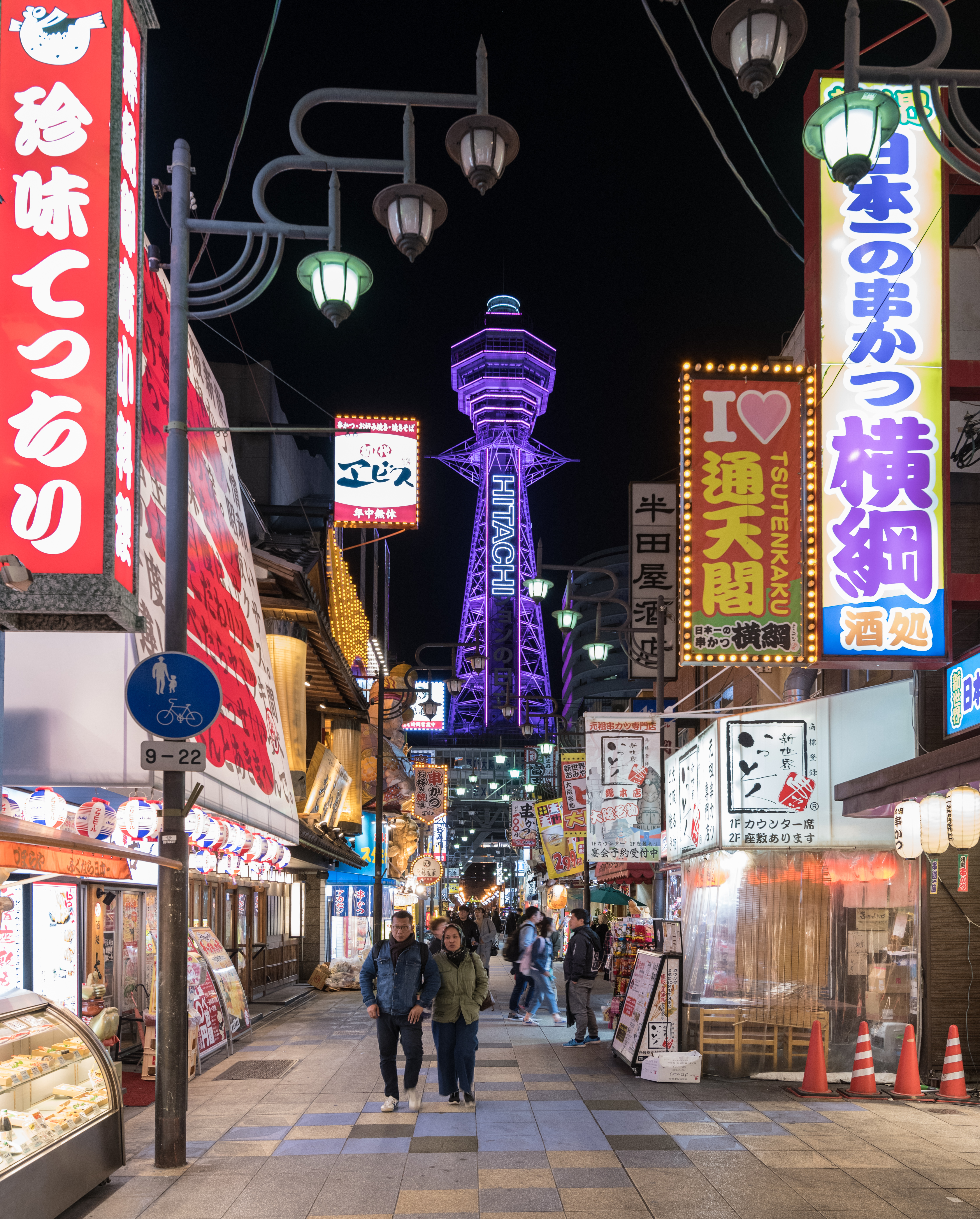 A south view of the Tsūtenkaku tower and the Ebisuhigashi neighborhood in Osaka